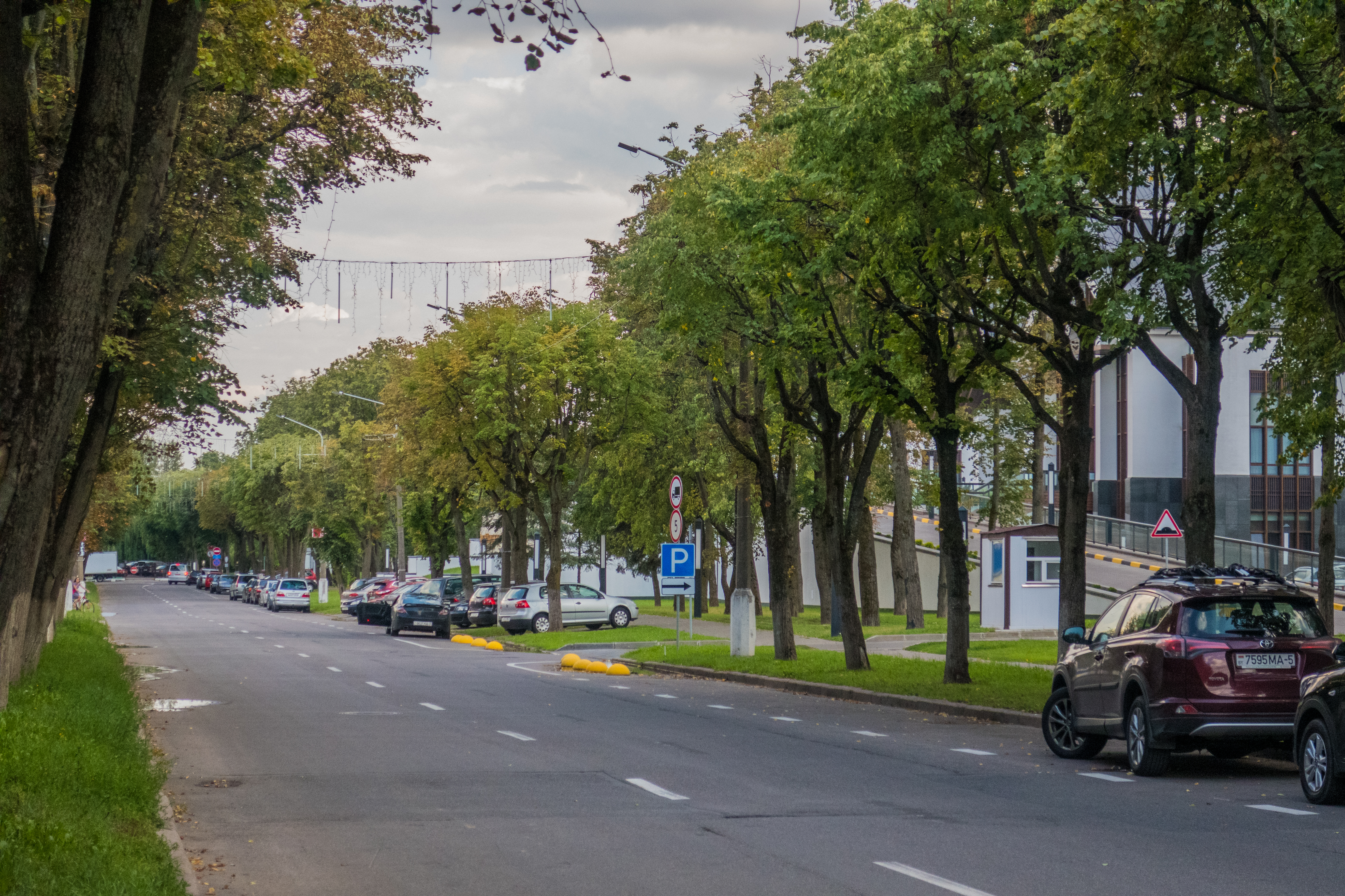 Čyrvonaarmejskaja street. Minsk, Belarus